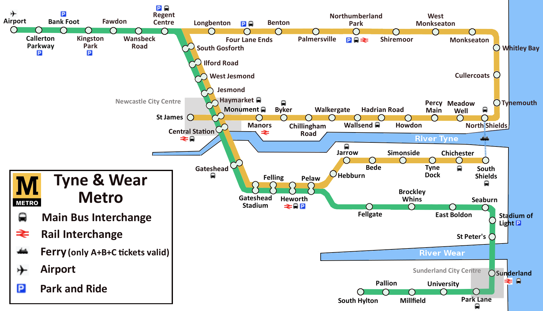 Diagram of the Tyne and Wear Metro. Self made. Inspired by the official map at